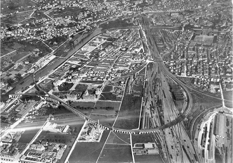 Aerial photograph of the rail bridge of Aussersihl in Zurich, Switzerland. View towards the east.